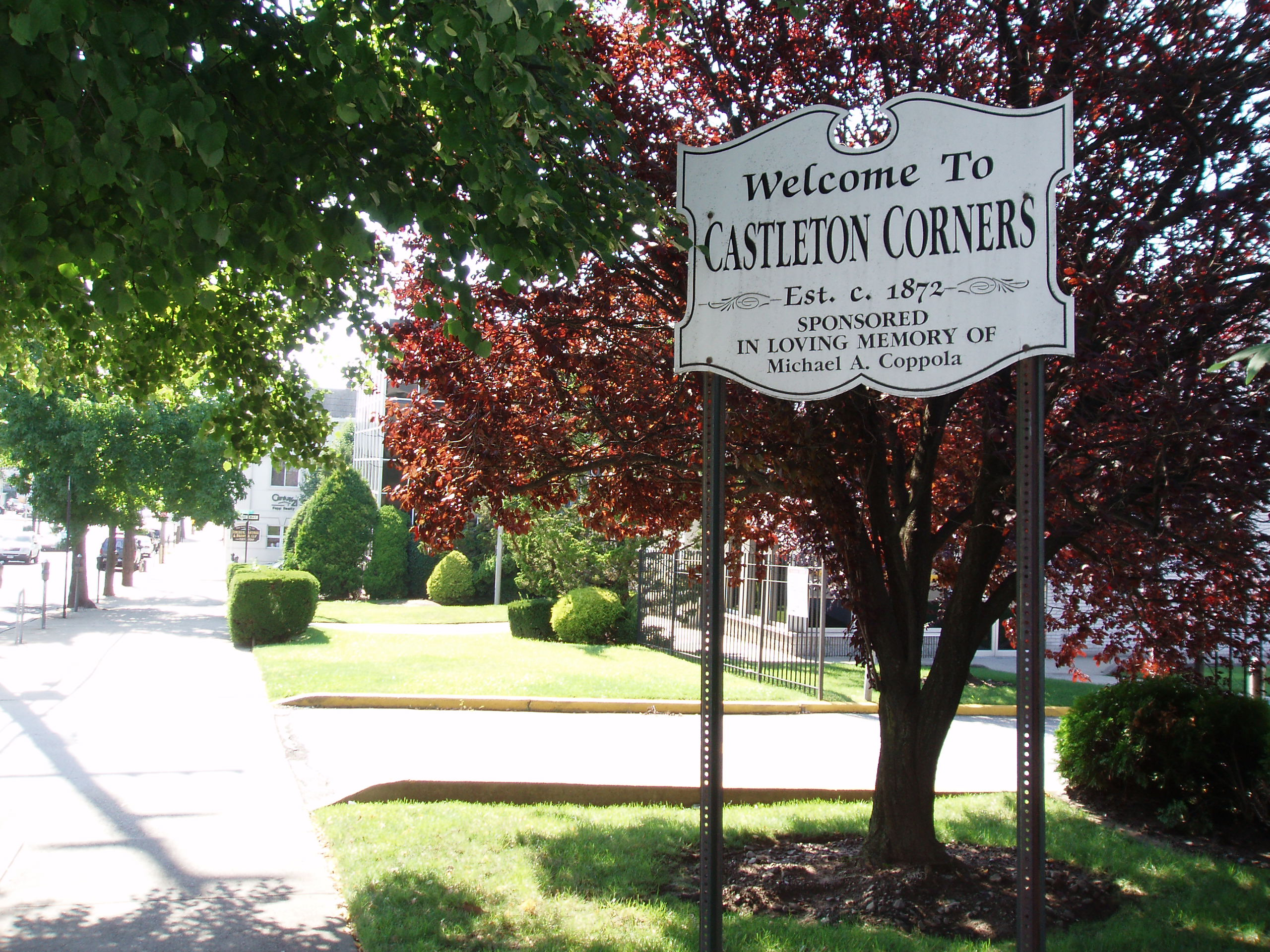 Welcome To Castleton Corners sign, Staten Island